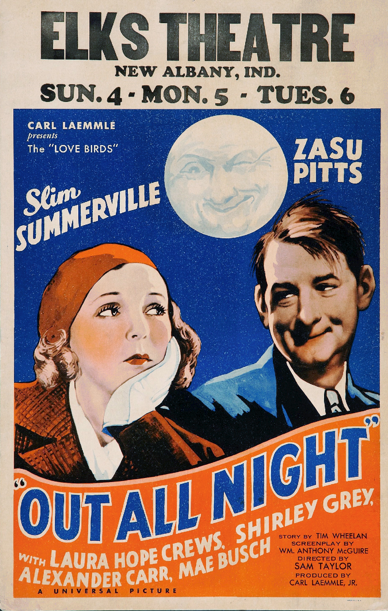 Poster for the 1933 film Out All Night. There are no copyright marks on the item. At lower right is Made in USA.